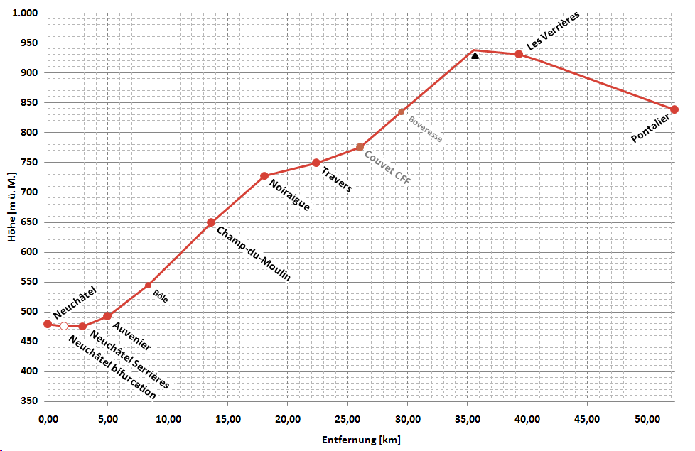 simplified profile of railway track Auverniers-Pontalier